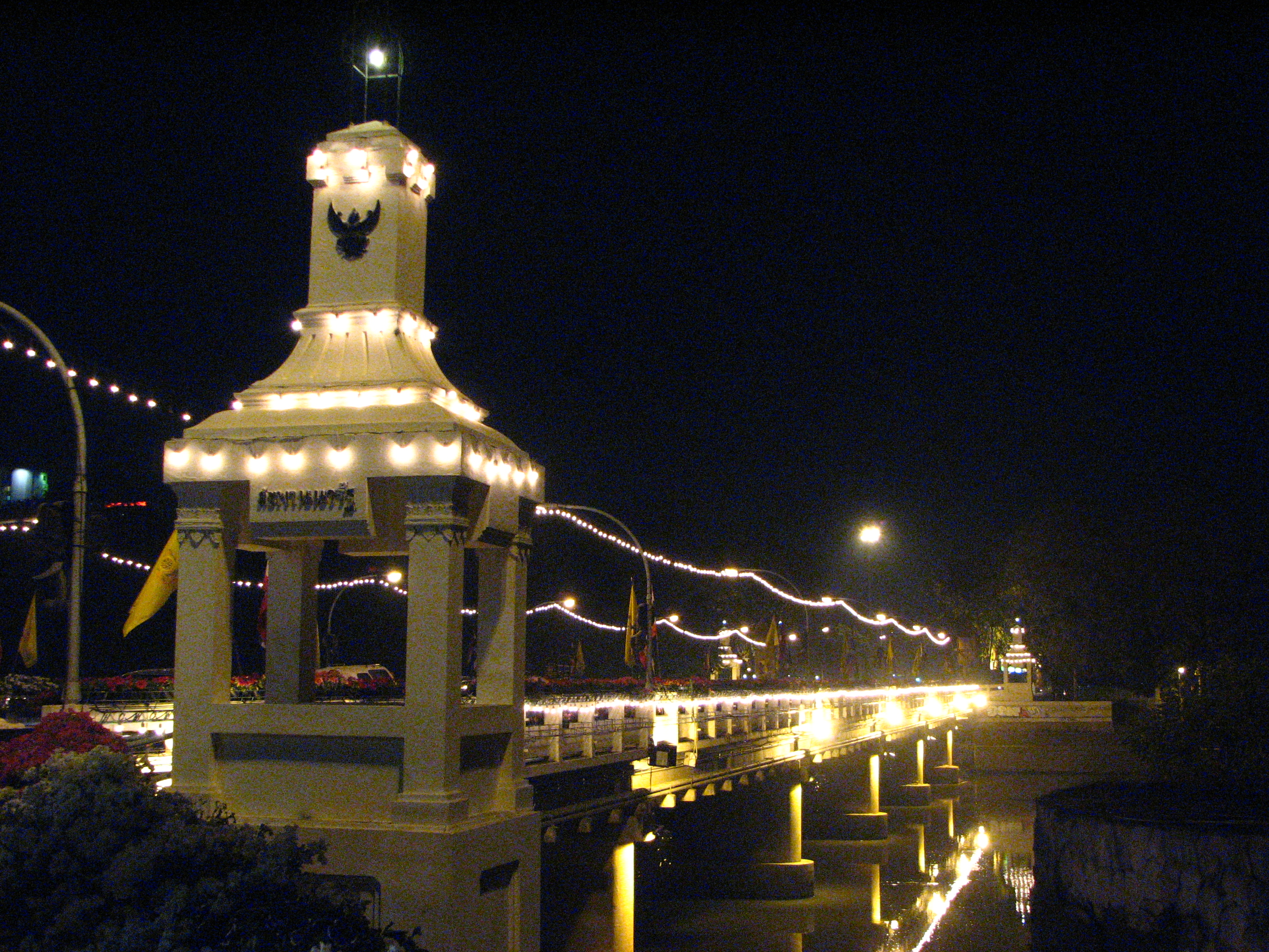 Nawarat Bridge in the night